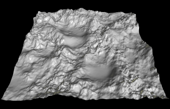 Heightmap. A version of Image:Heightmap.png rendered with Anim8or and no textures.